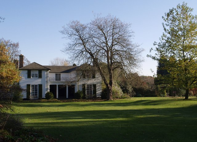 Cory Lodge, Cambridge This building houses the offices of the Cambridge University Botanic Garden.